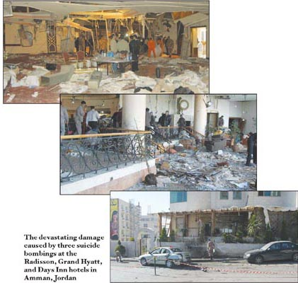 The devastating damage caused by three suicide bombings at the Radisson, Grand Hyatt, and Days Inn hotels in Amman Jordan